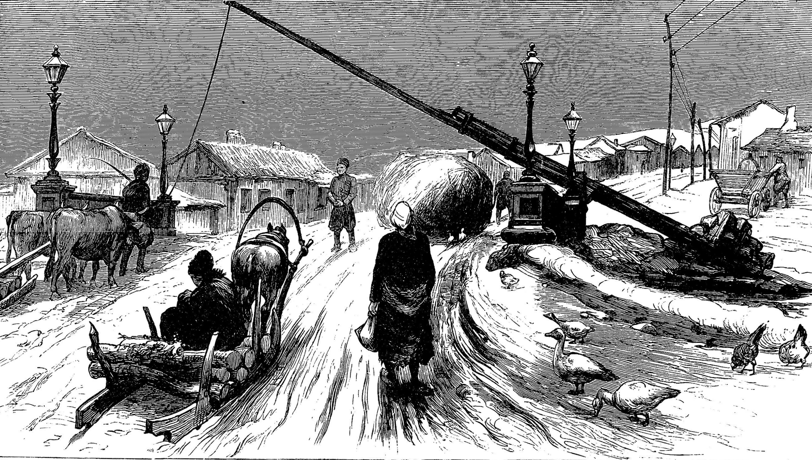 A toll bar in Roumania